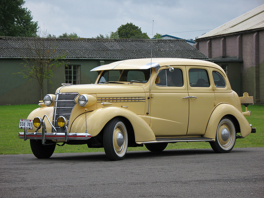 A 1938 Chevrolet Master Deluxe Series HA photographed at RAF Elvington on the 18 of August 2007 by Brian.Burnell.